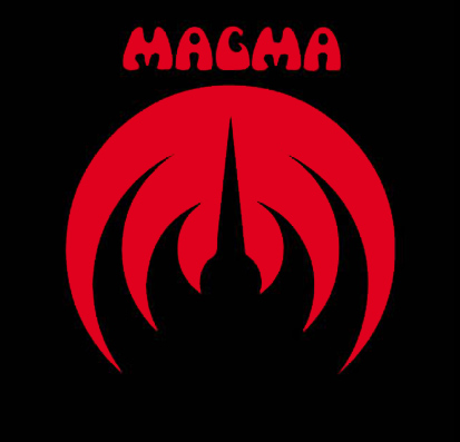 The symbol of Magma.